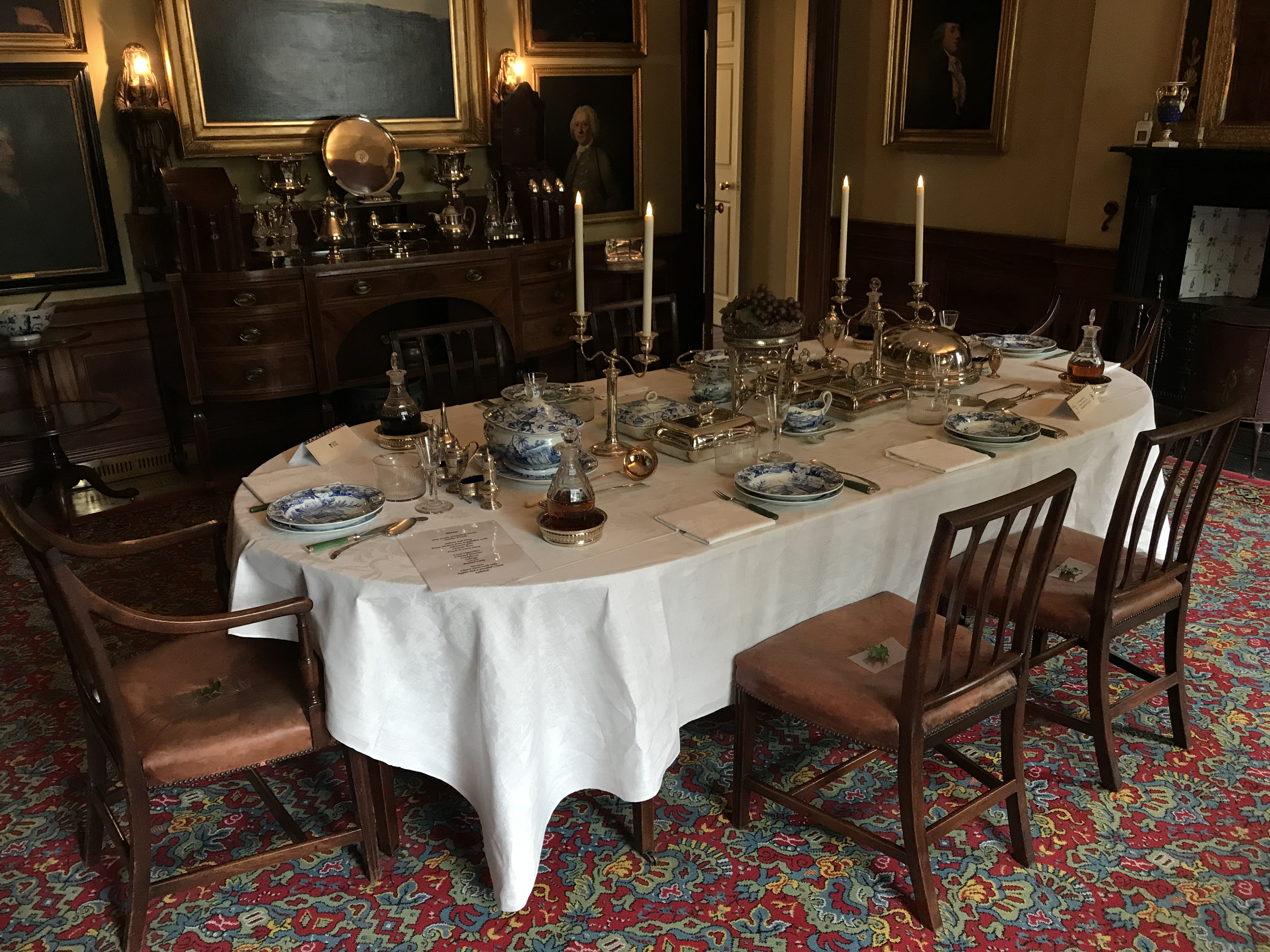 Dining table, National Trust for Scotland, Georgian House, Edinburgh